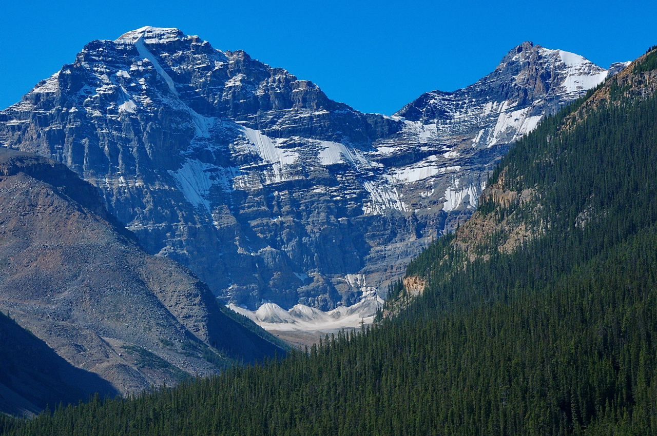 Mount Cromwell and Mount Engelhard (right) seen from the Icefields Parkway in Jasper National Park, Canada